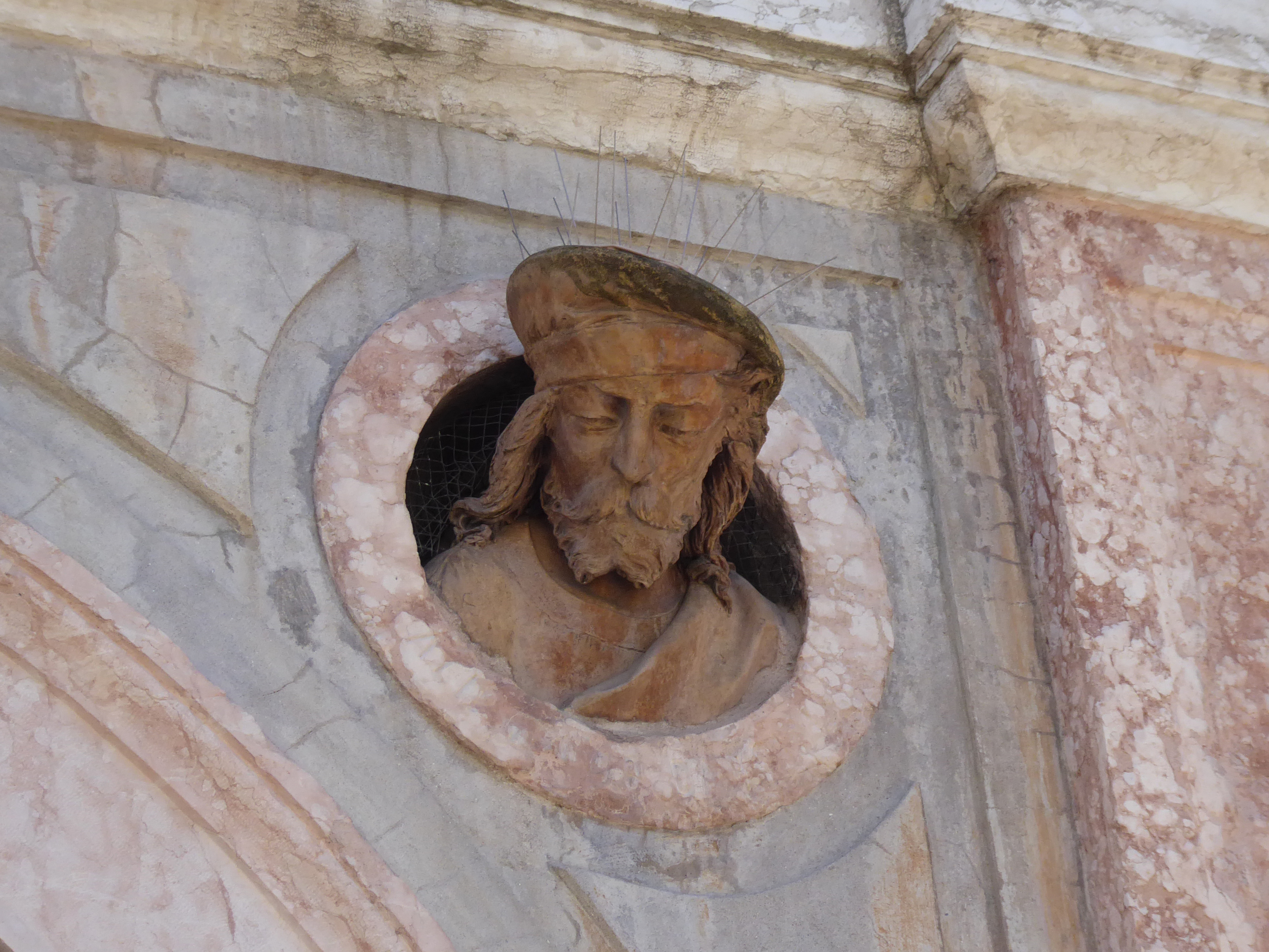 Bust of Aliprando Caprioli on the facade of Palazzo Ranzi, in Trento, by Andrea Malfatti